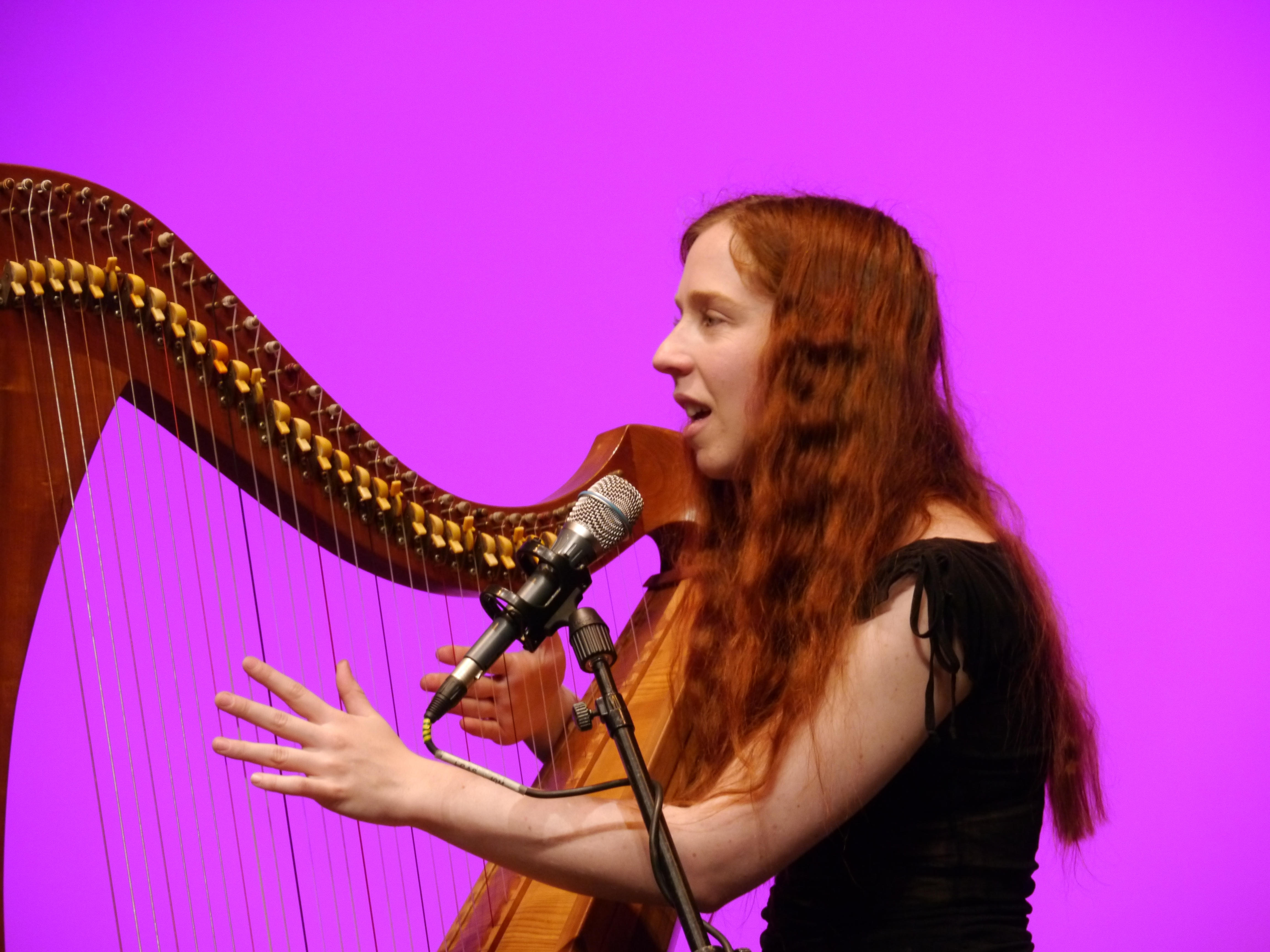 Mang'Azur festival of Toulon - official site